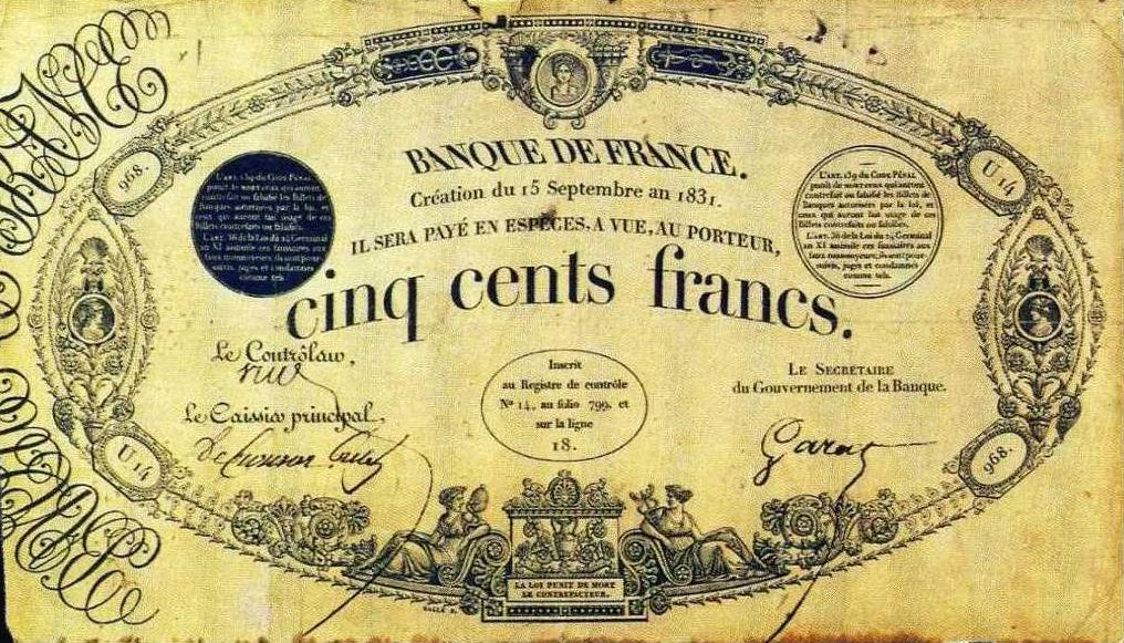 French Banknote 500 francs black 1831